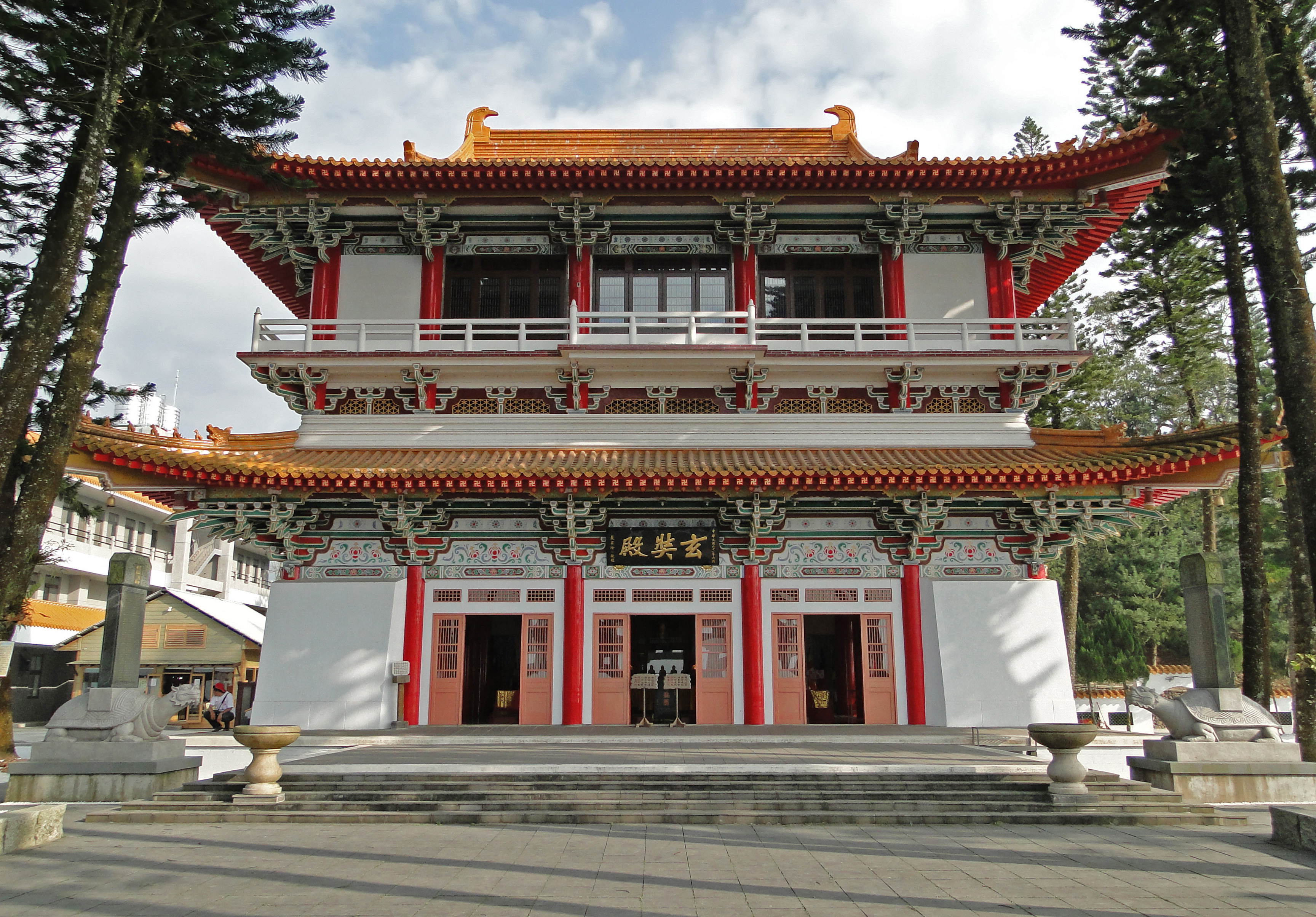 Xuanzang Temple at Sun Moon Lake, Taiwan